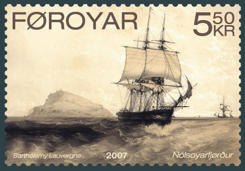 Stamp FO 588 of the Faroe Islands: Ancient Lithographs 1839